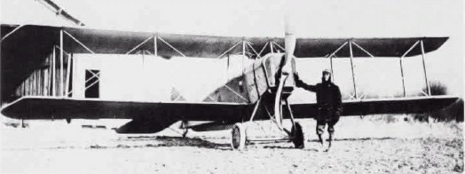 A Thomas Brothers Aeroplane Company D-2 airplane, circa 1915.